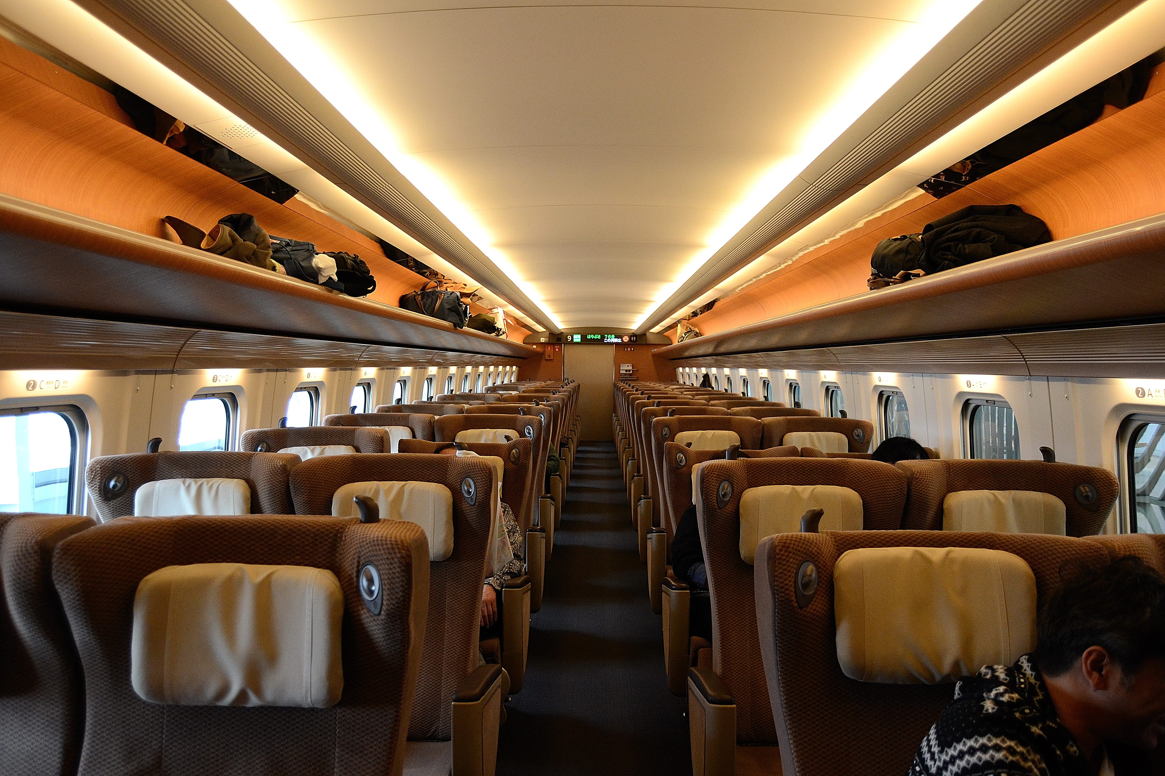 The interior of a JR East E5 series shinkansen Green car (car 9)